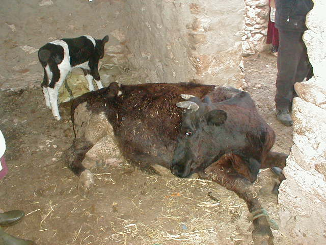 milk fever : "auto-auscultation" position; two-days-old calve beyond